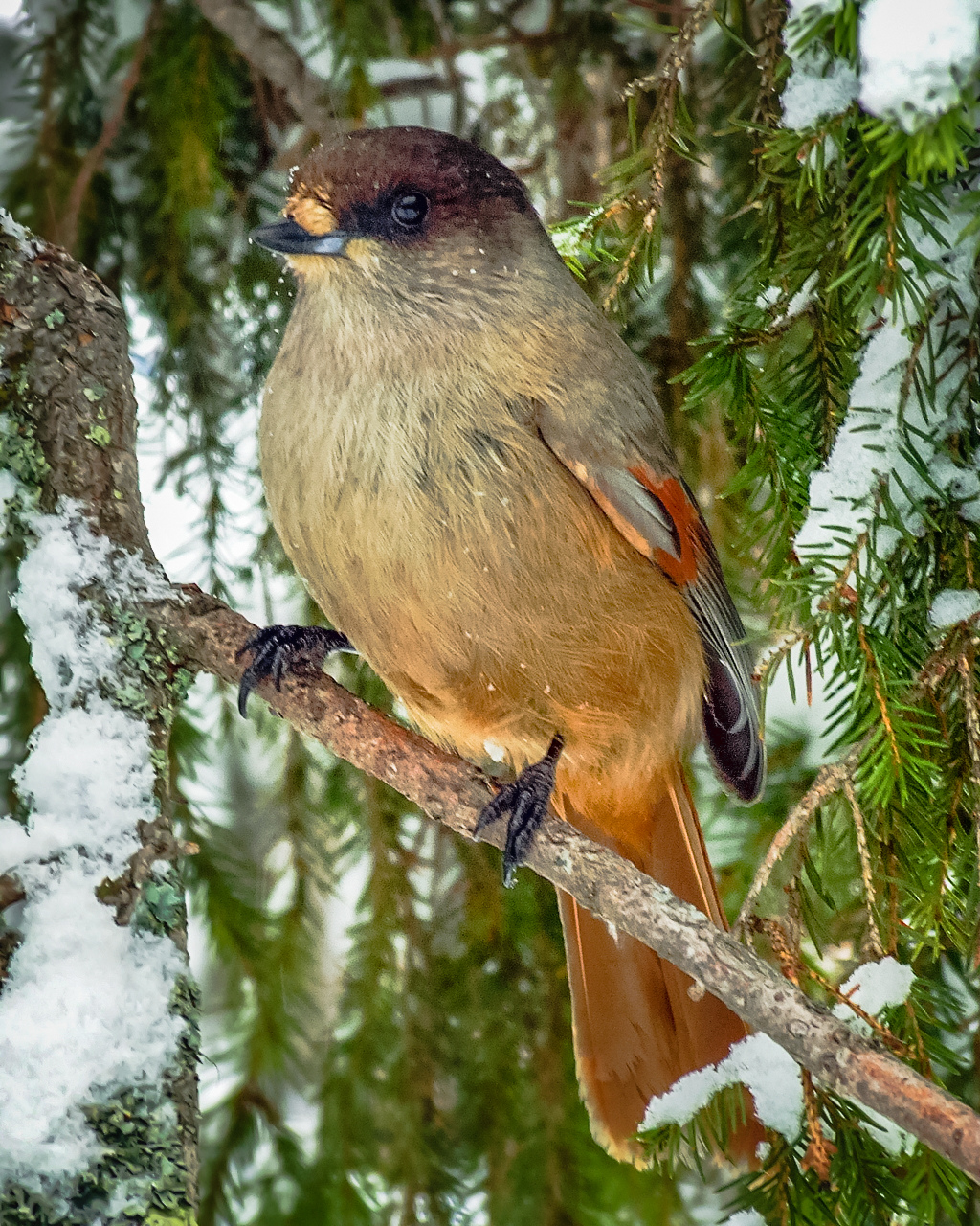 A Siberian Jay (Perisoreus infaustus) in Kittilä, Finland